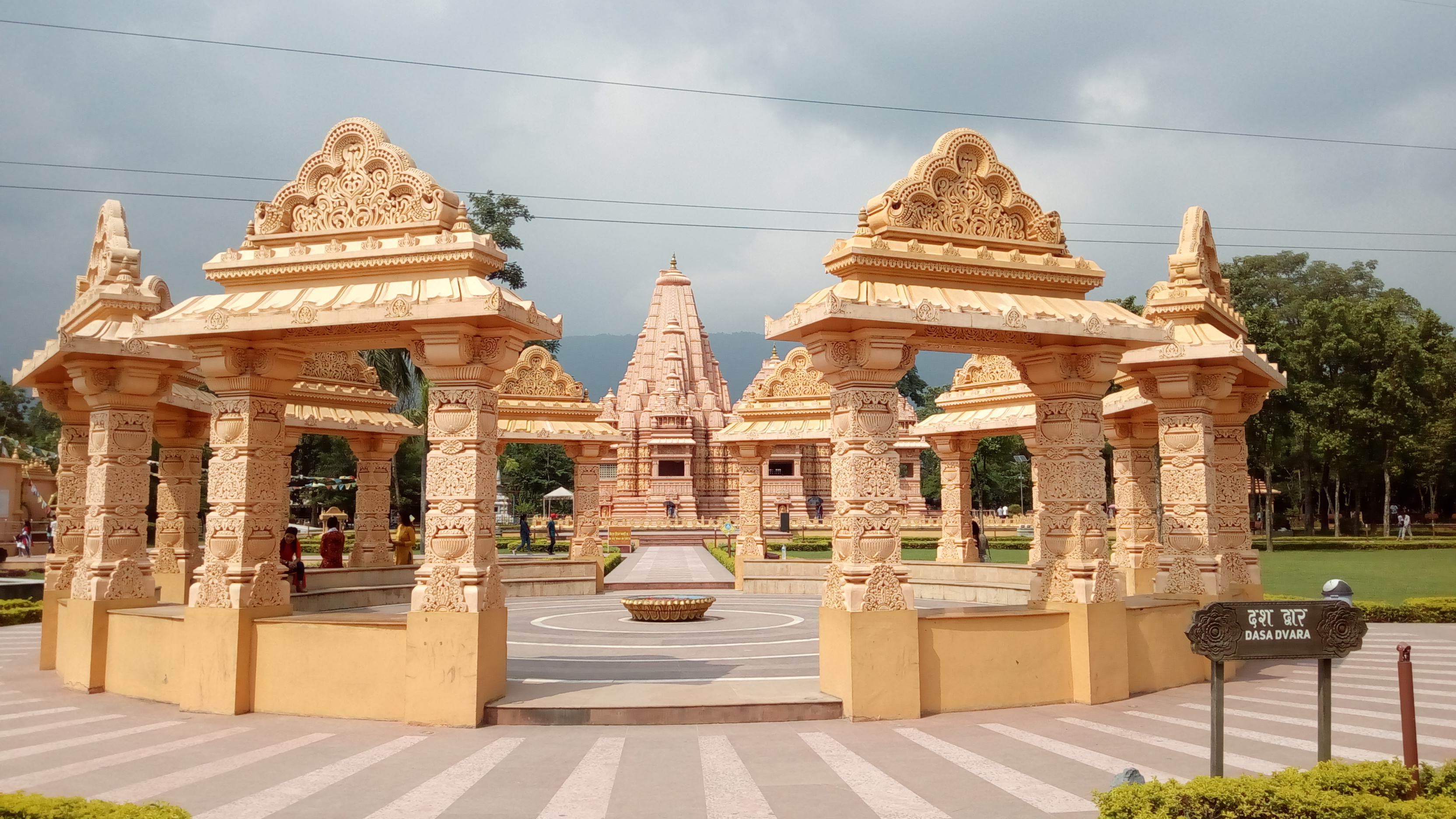 शास्वोतधाम सि जी को पुण दृश्य , रजहर नवलपरासी